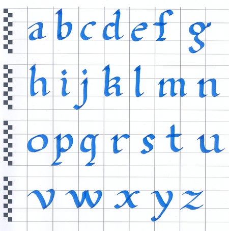 example of foundational lettering